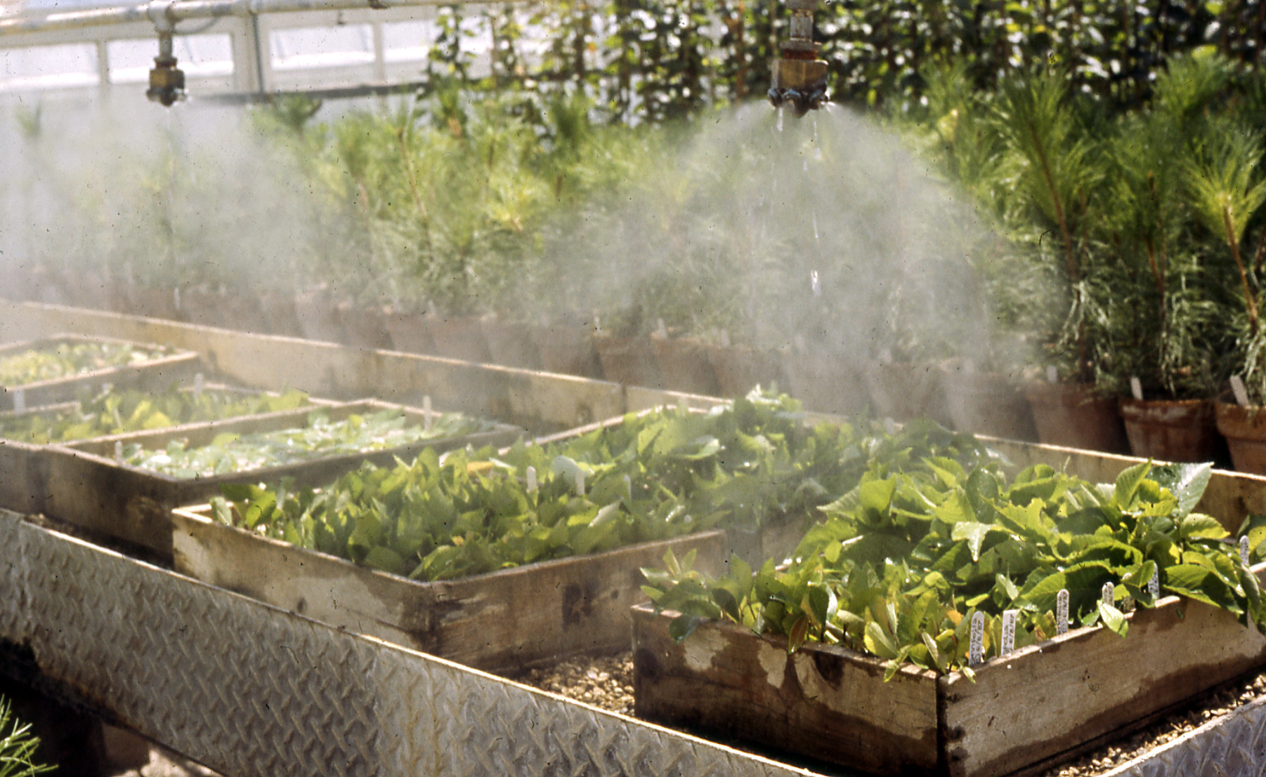 Rooting of softwood cuttings of elm under the mist propagation system - Madison - Greenhouses Walnut st.1987.07.08. (photo: Mihailo Grbić)